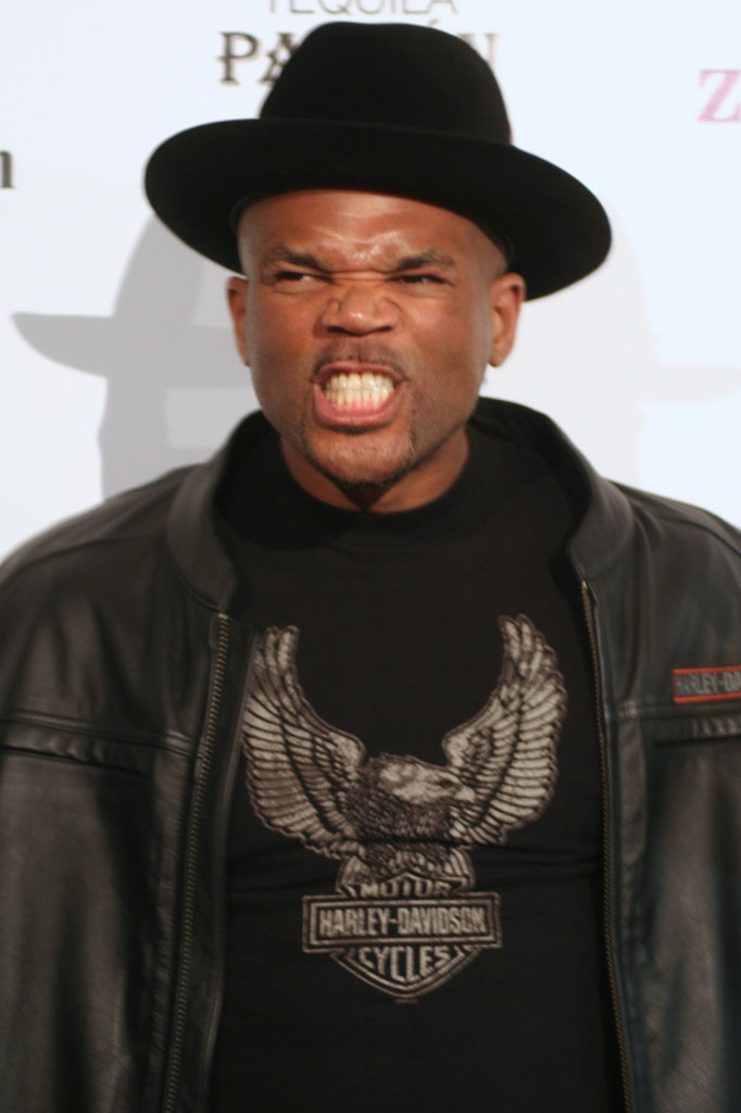 Darryl "D.M.C." McDaniels at the Billboard-Children Uniting Nations after-party red carpet.